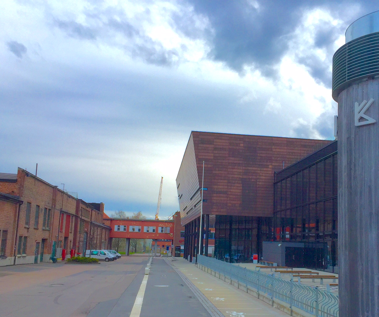 Kabelgaten street in Oslo, Norway